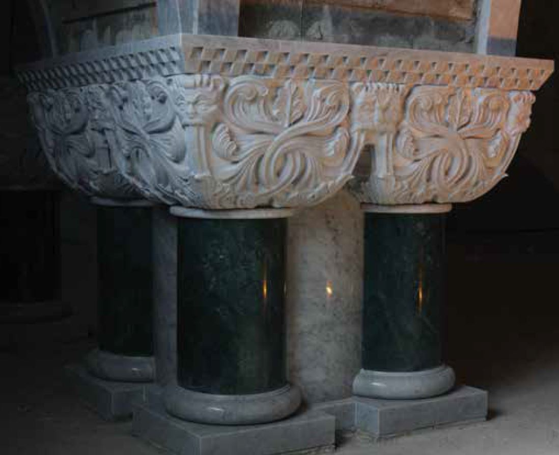 Stub konha na galeriji